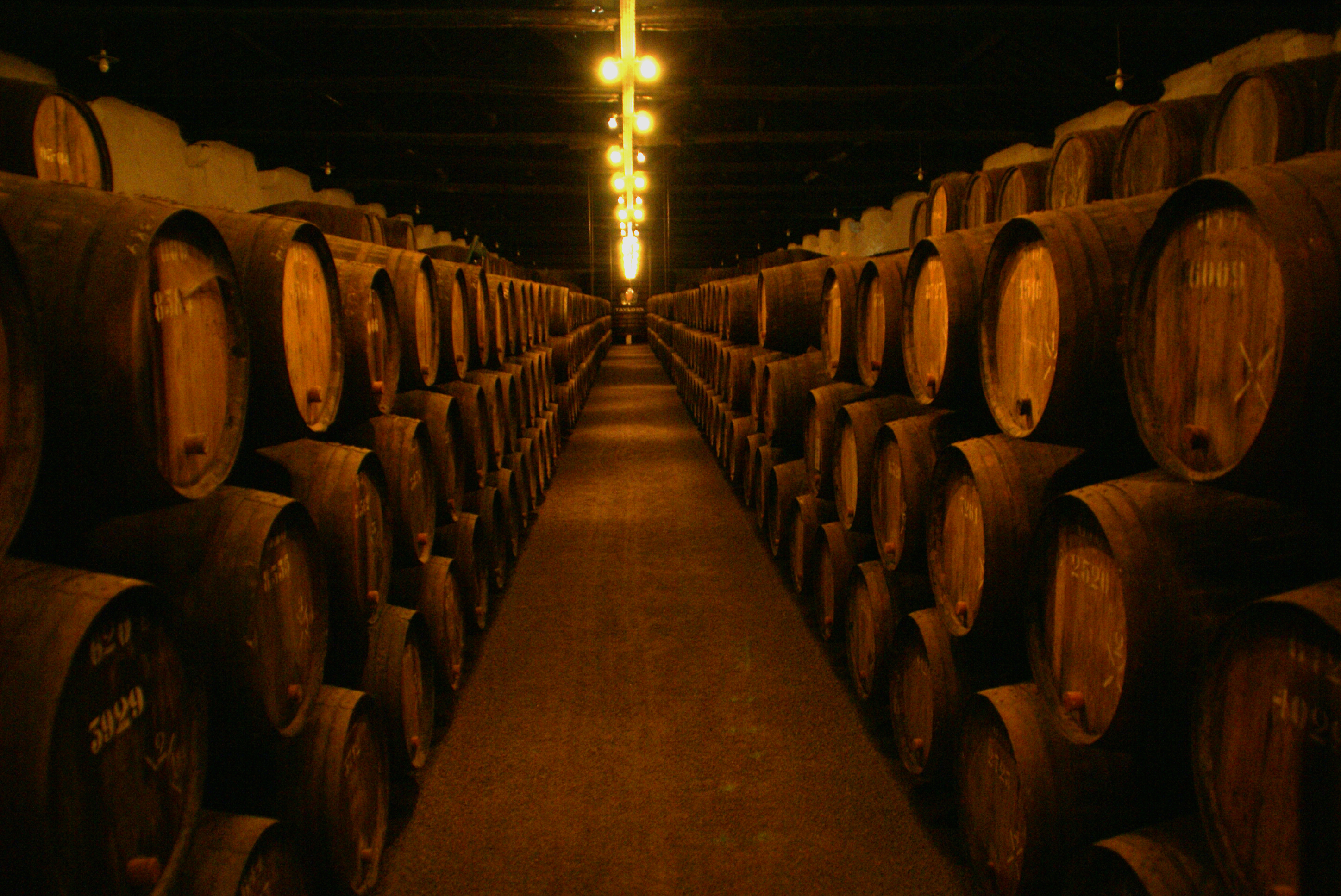 Taylor´s wine cellars at Vila Nova de Gaia, Portugal.